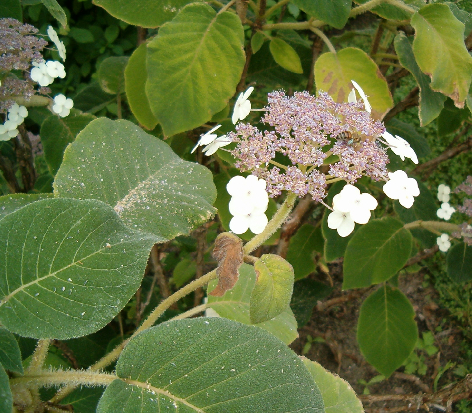 Hydrangea aspera ssp. sargentiana Location: Botanical Gardens Berlin Leaves and Inflorescence